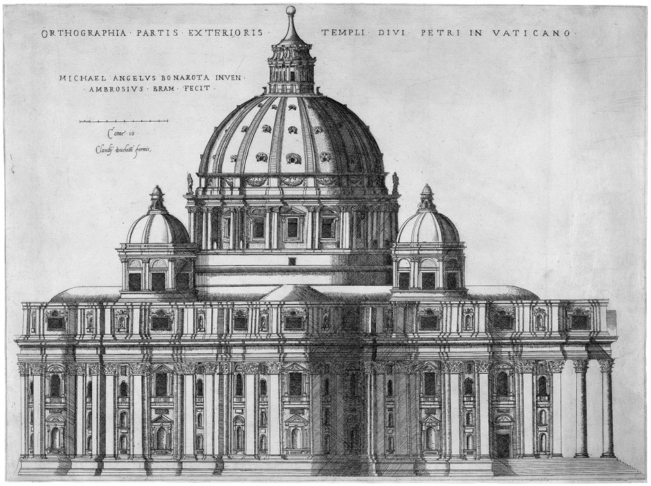 Orthographia Partis Exterioris Templi Divi Petri in Vaticano Kupferstich. 34 x 45,6 cm